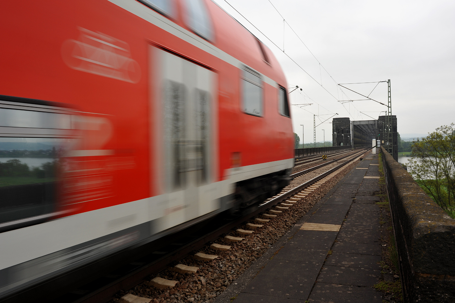 Urmitz railway bridge over the Rhine river between Urmitz and Neuwied; Rhineland-Palatinate, Germany.